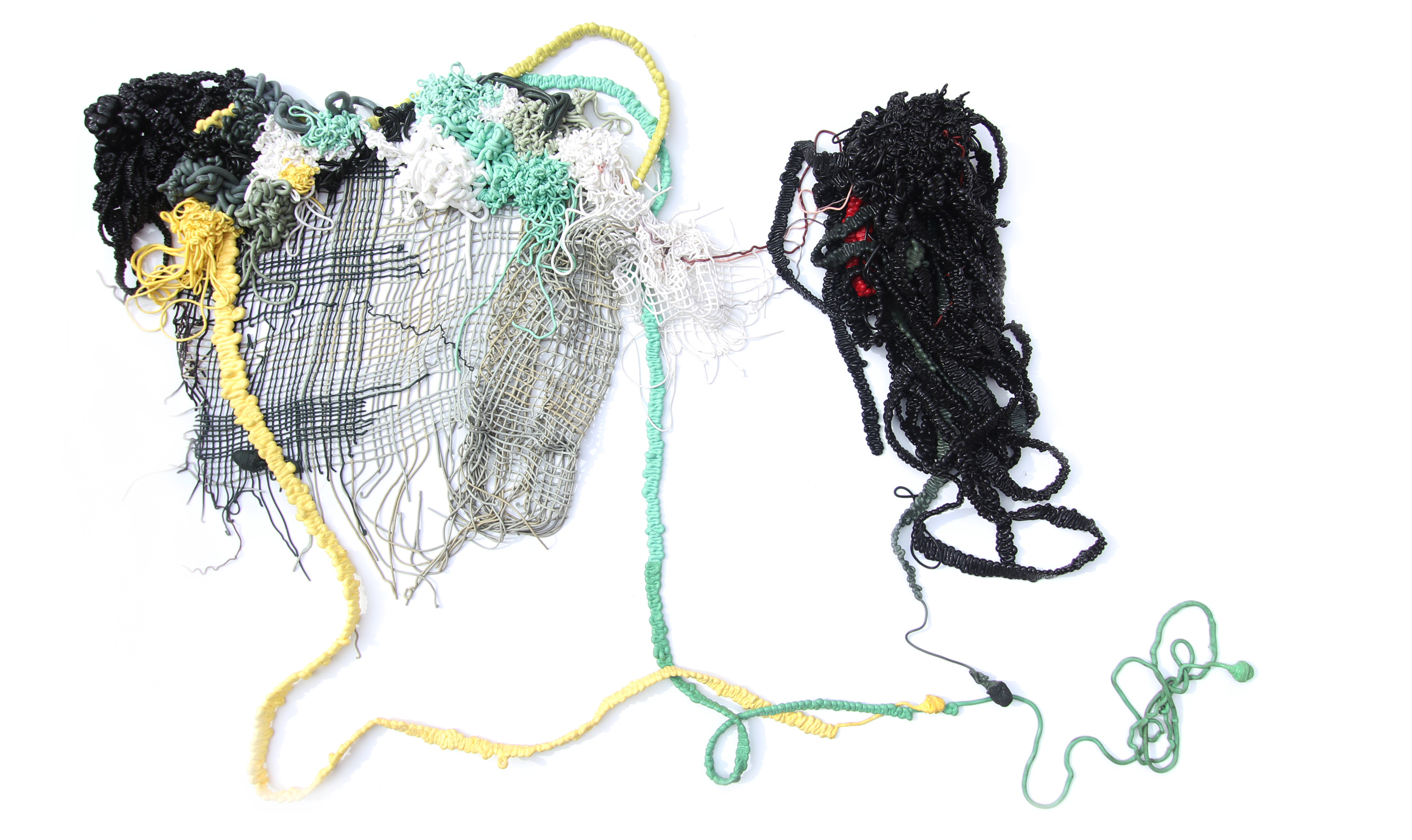 Artwork by Troy Makaza, artist represented by First Floor Gallery Harare